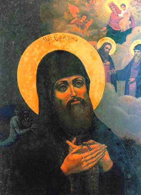 Saint Erasmus (Erazm) of Kyiv Caves. Orthodox saint and hermit. Died in 1160 AD. Kyiv, Ukraine.